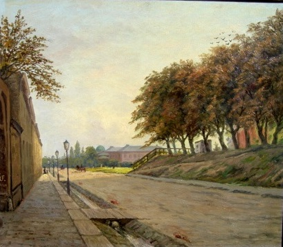 Painting of Øster Voldgade in Copenhagen, Denmark